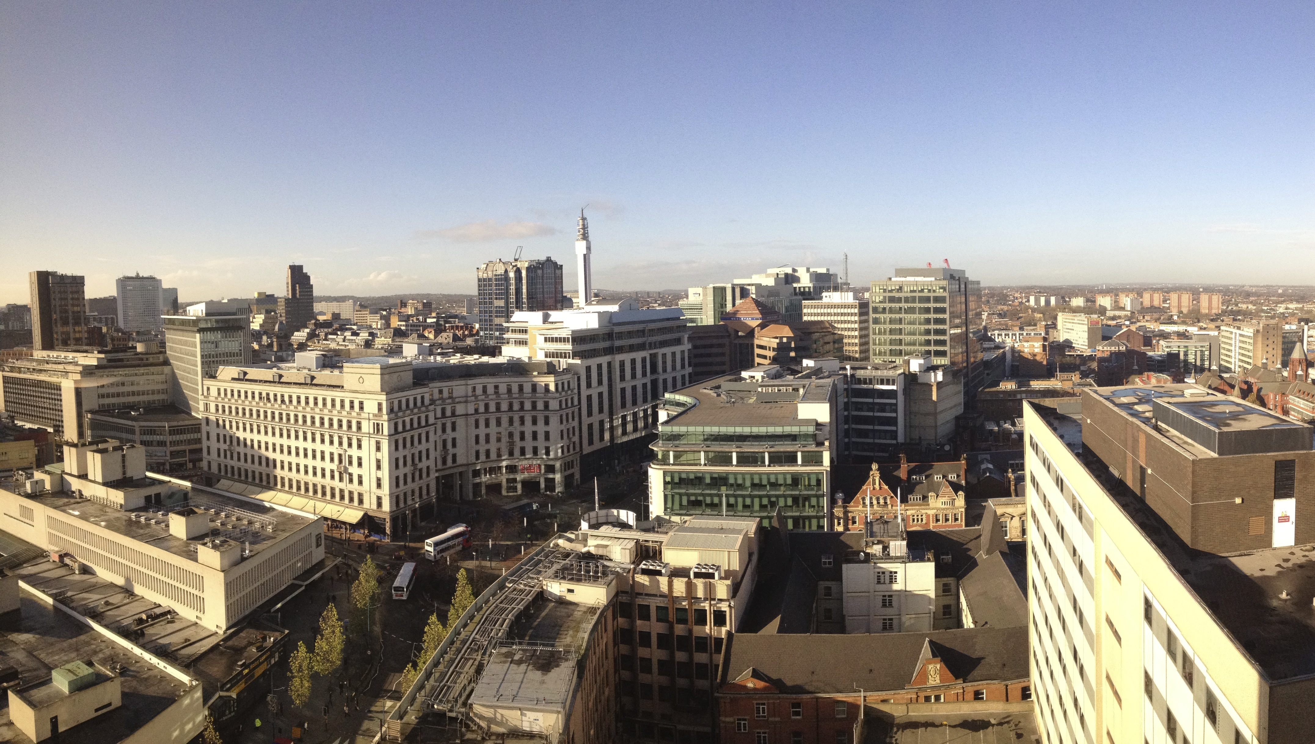 Birmingham Business District as viewed from the 15th Floor of the McLaren Building, Birmingham, UK